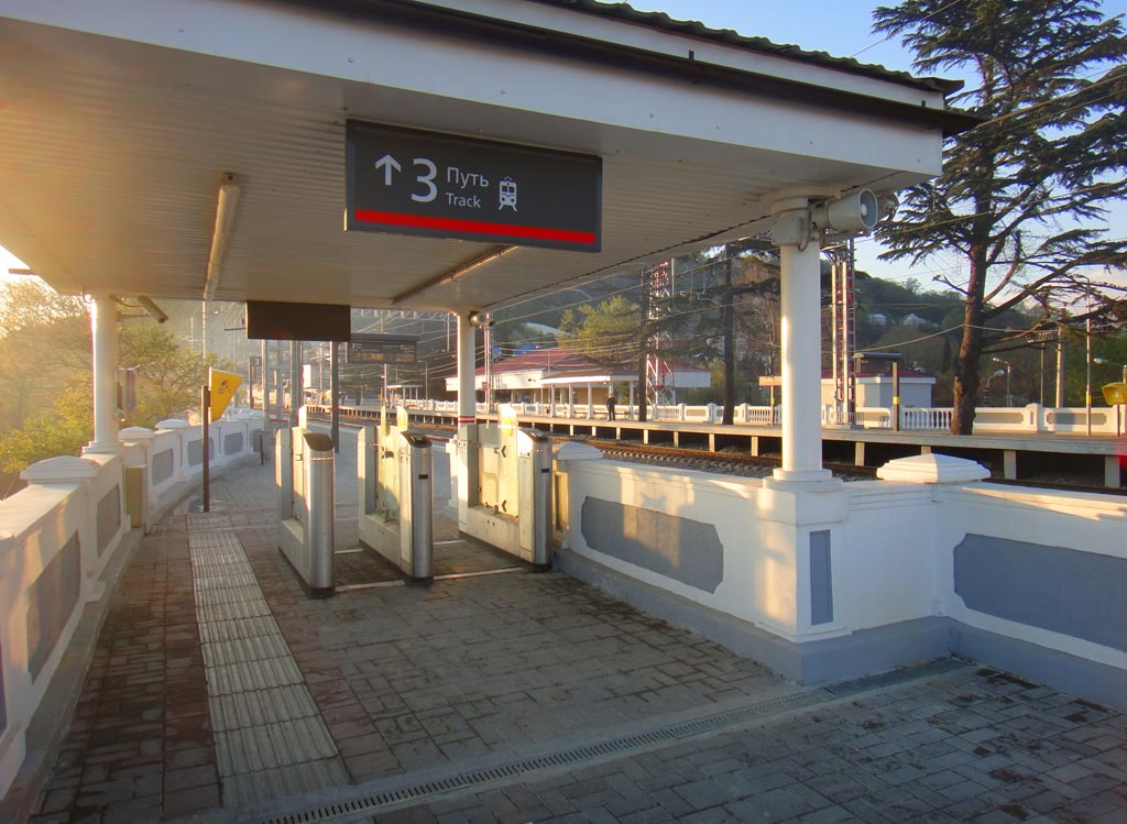 Dagomys train station